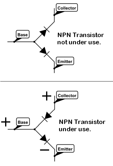 Here, above, an NPN transistor is shown, all pins unconnected. An ohm meter detects two diodes connected back to back at base. Lower diagram shows that as positive voltage is connected to base, and base & emitter current begins, the upper diode change its direction.